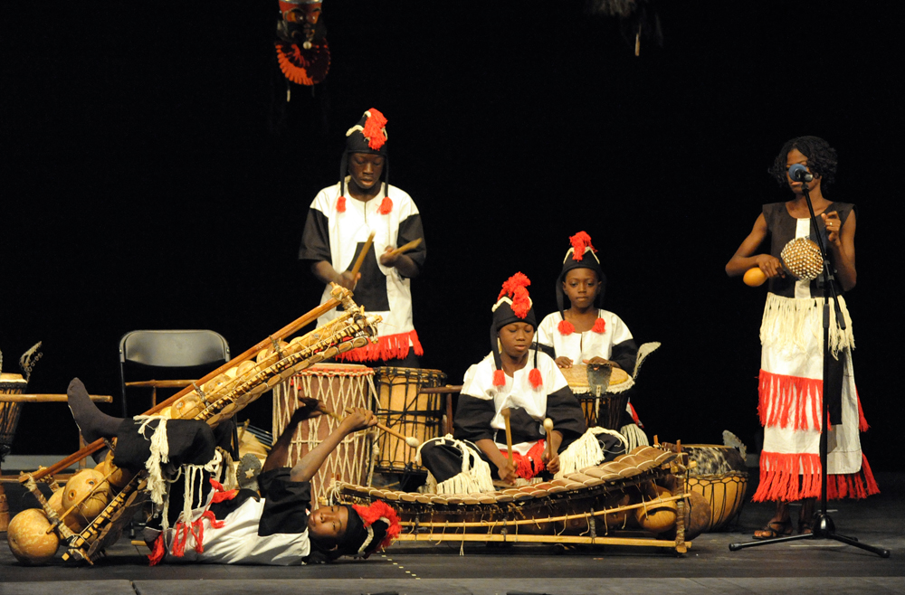 Children from Burkina Faso perform during the 5th Cross Culture Festival in Warszawa, Poland